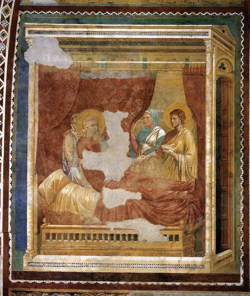 Scenes from the Old Testament